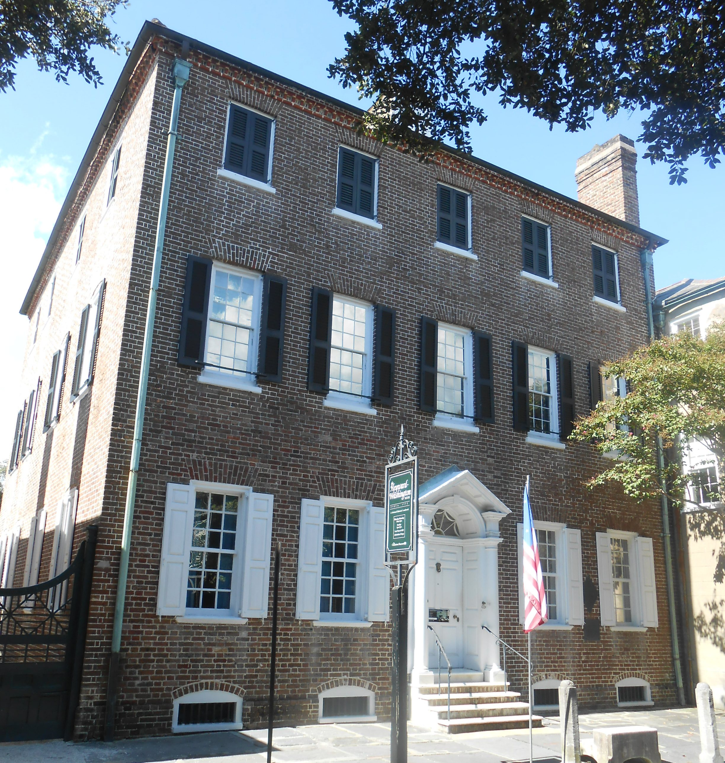 The Heyward-Washington House in Charleston, South Carolina is a Georgian museum house.